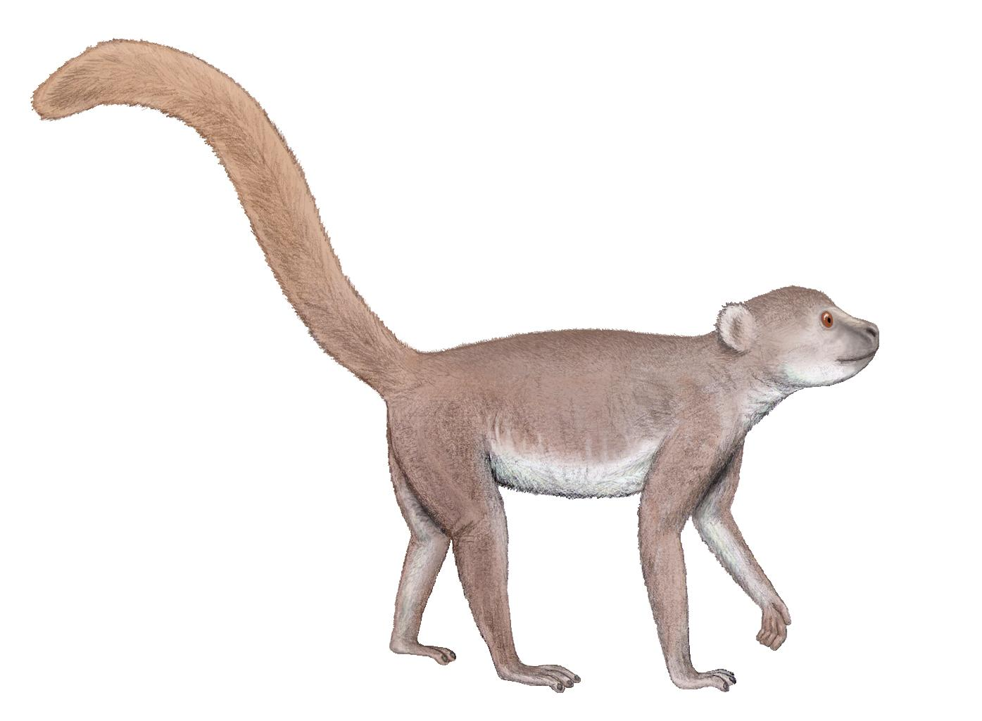 Life restoration of Archaeolemur majori. Based on figure 6.2 of "Lemurs: Old and New" by E. L. Simons in Natural Change and Human Impact in Madagascar. Washington and London: Smithsonian Institution Press. pp. 142-166 Also based on the photographs seen here (left skull).